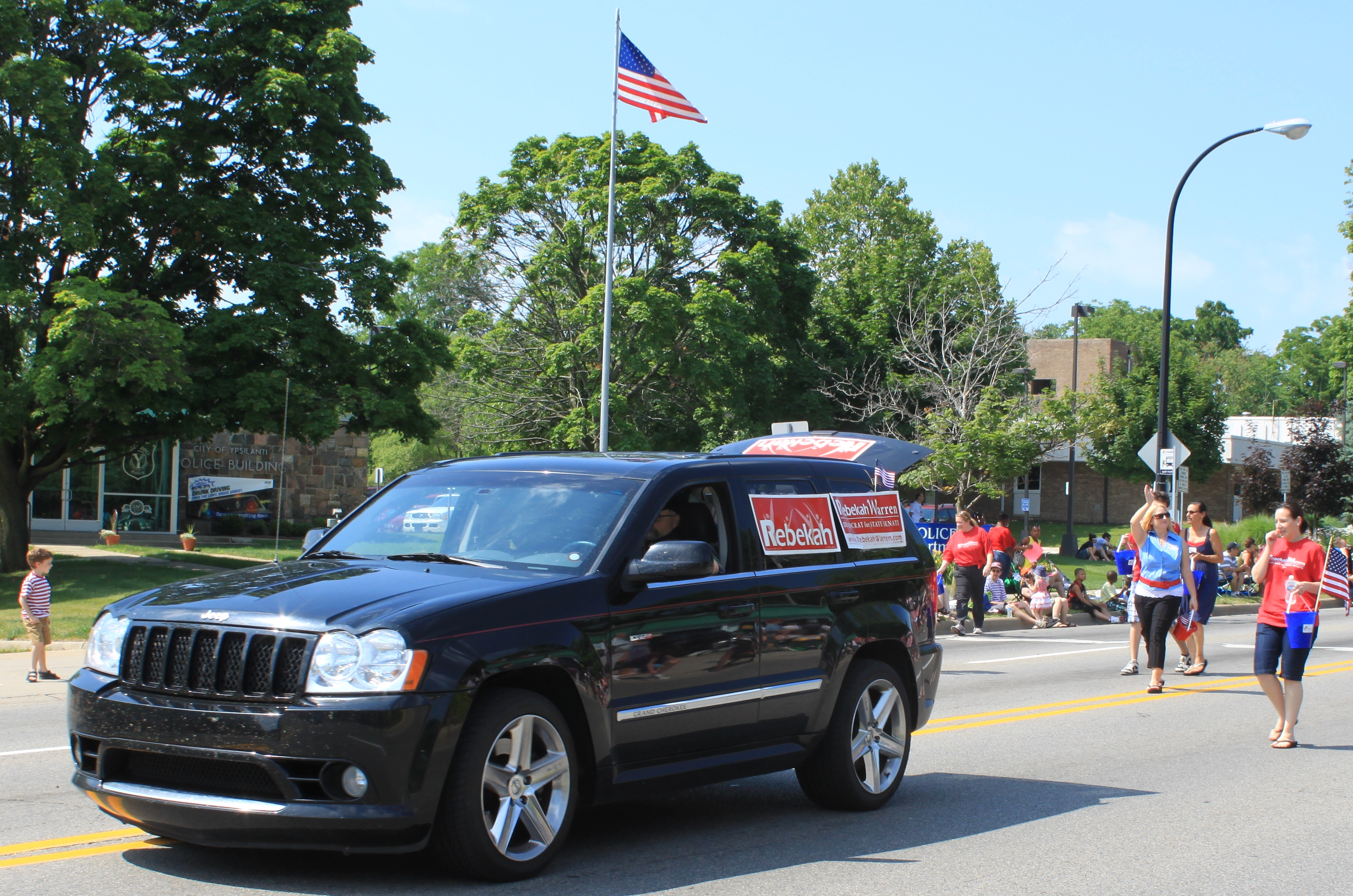 Michigan Legislature senator Rebekah Warren waves to the crowd in the 2011 Ypsilanti Independence Day Parade, July 4, Michigan Avenue, Ypsilanti, Michigan